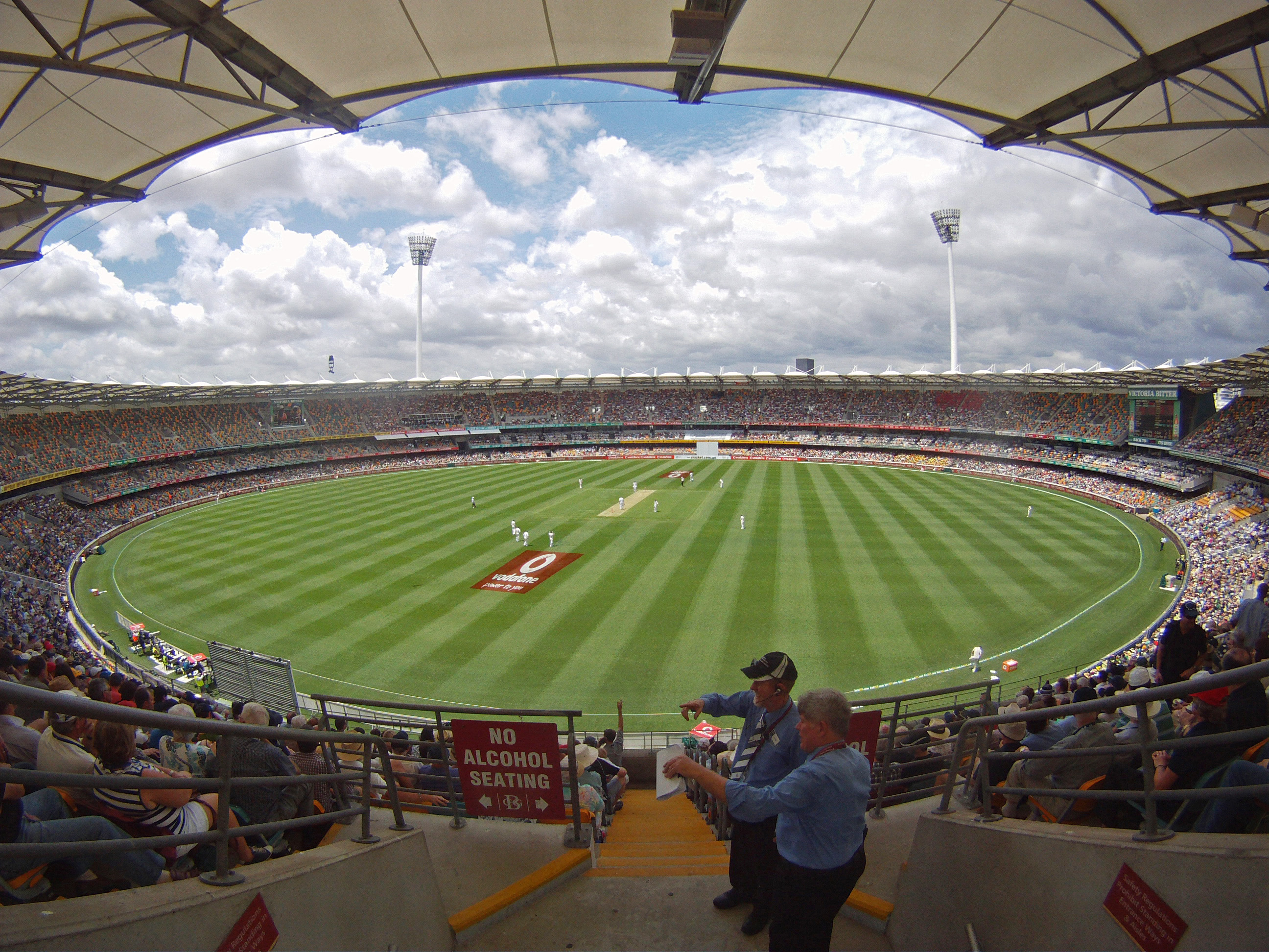 First day of the test match between Australia and South Africa from the Gabba. using the GoPro for the wide angled view.